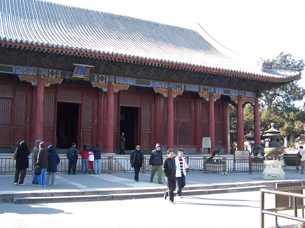 Summer Palace at Beijing, China